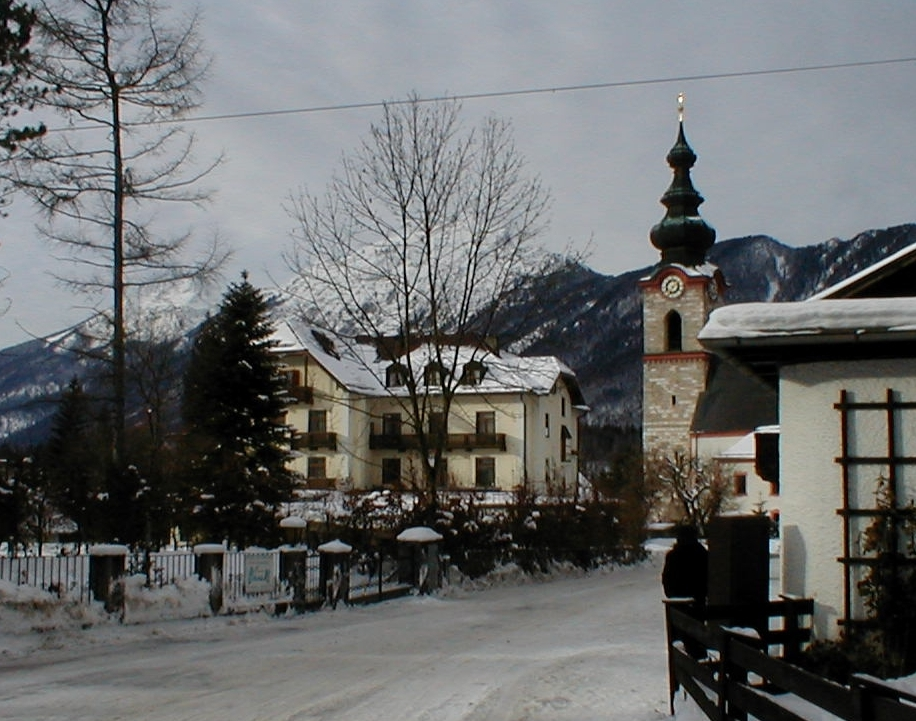 Großgmain im Winter Photographed by Gakuro